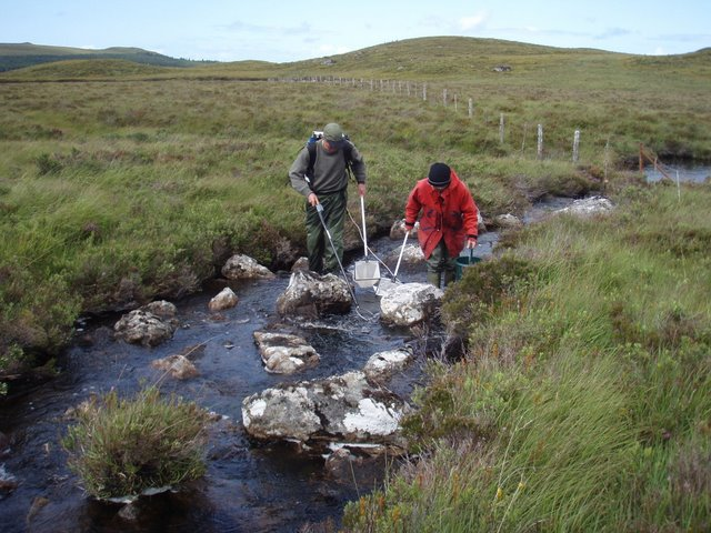 Electrofishing the Uidh Mhich'ille Riabhaich The Wester Ross Fisheries Trust carrying out the annual survey of rivers in the area.